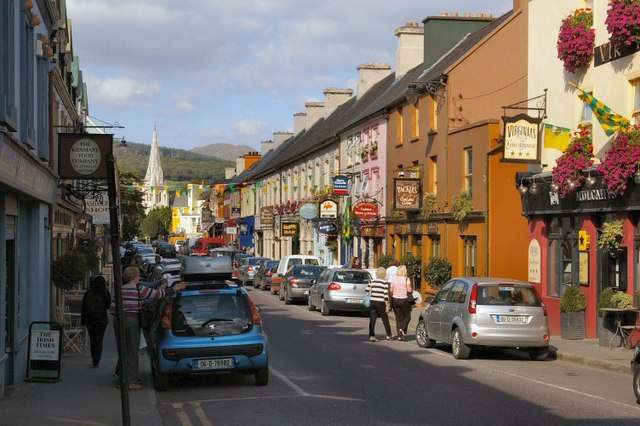 Henry Street, Kenmare According to OSI Sheet 78, the west side of Henry Street is in V9070 and the east side is in V9170.